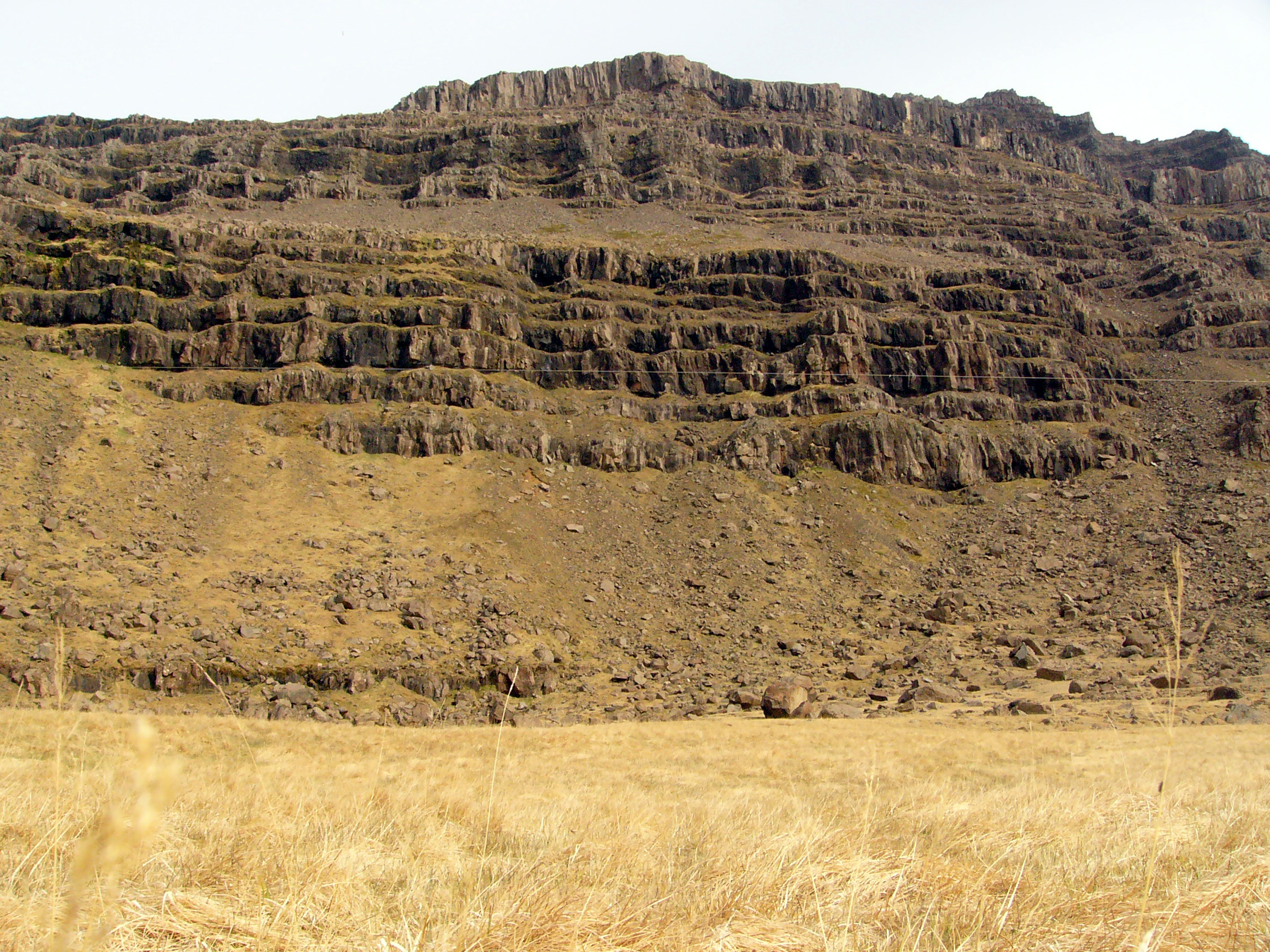 The side of Berufjörður in West Iceland